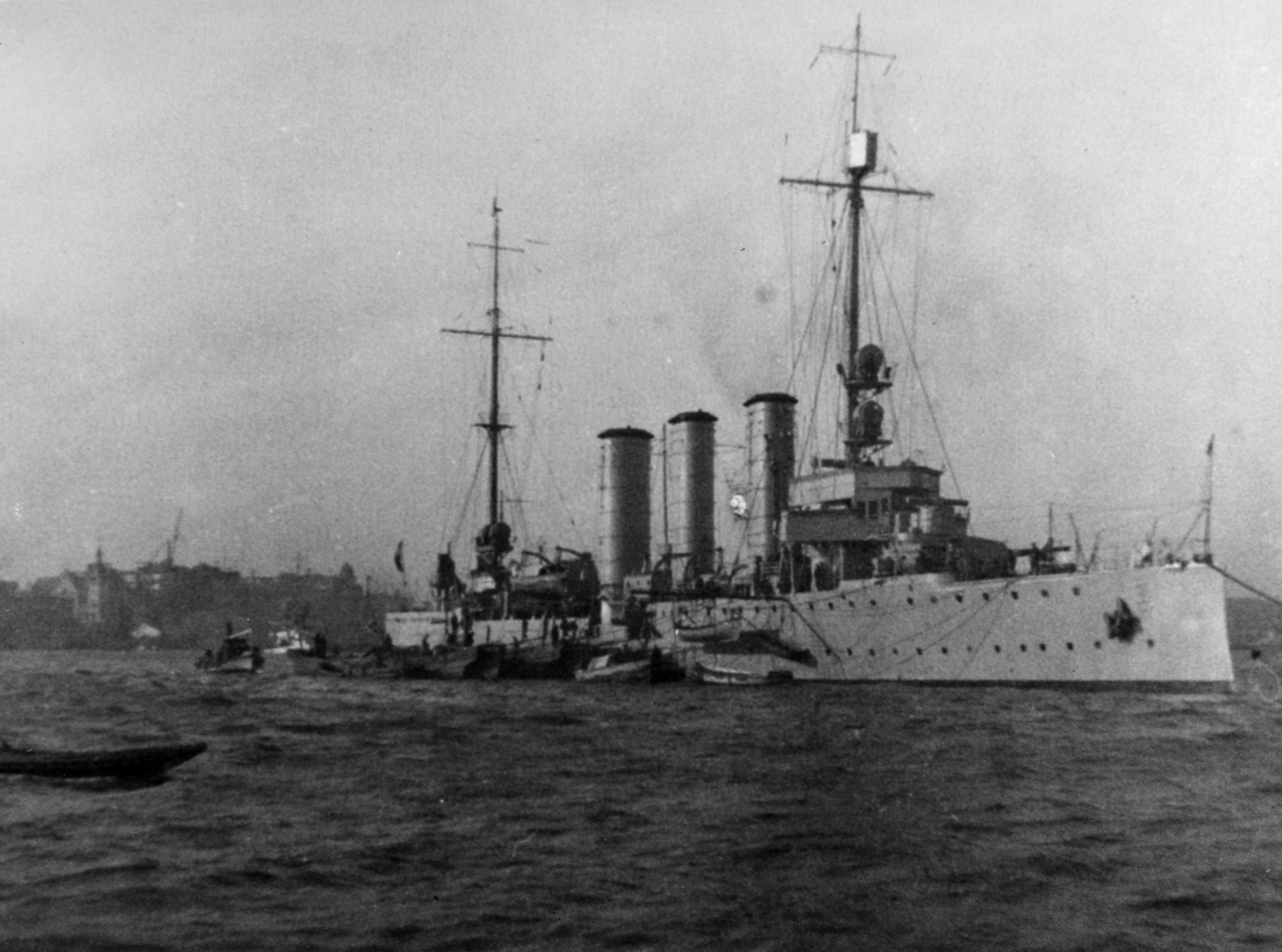 The French light cruiser Colmar operating as part of the Yangtze River Patrol, China, between 1922 and 1927. Colmar was a war prize allocated to France. She was originally commissioned in the Imperial German Navy as SMS Kolberg from 1910 to 1918.